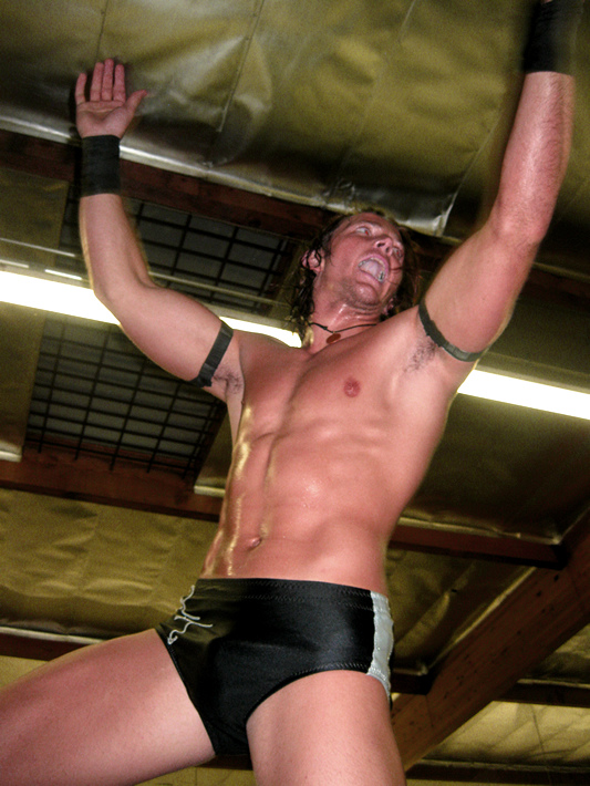 Ryan Taylor rallies the crowd around him at MPW: Not Another Pointless Reboot on June 5, 2010.